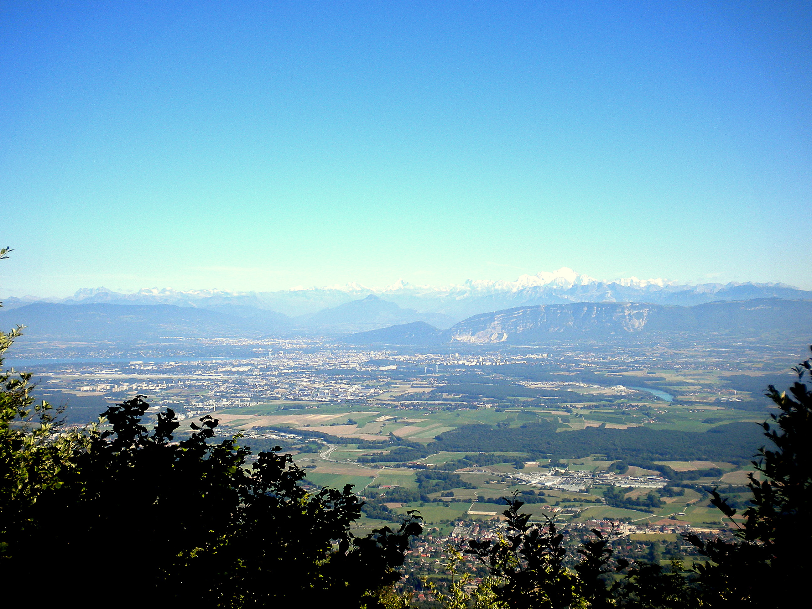 Panorama taken 200 m below the top of the Reculet (commune de Thoiry, department of Ain). On the foot of the mountain, one can see Thoiry, Geneva, Annemasse and the Saleve, On the vanishing line, the Mont-Blanc and Savoyard Alps